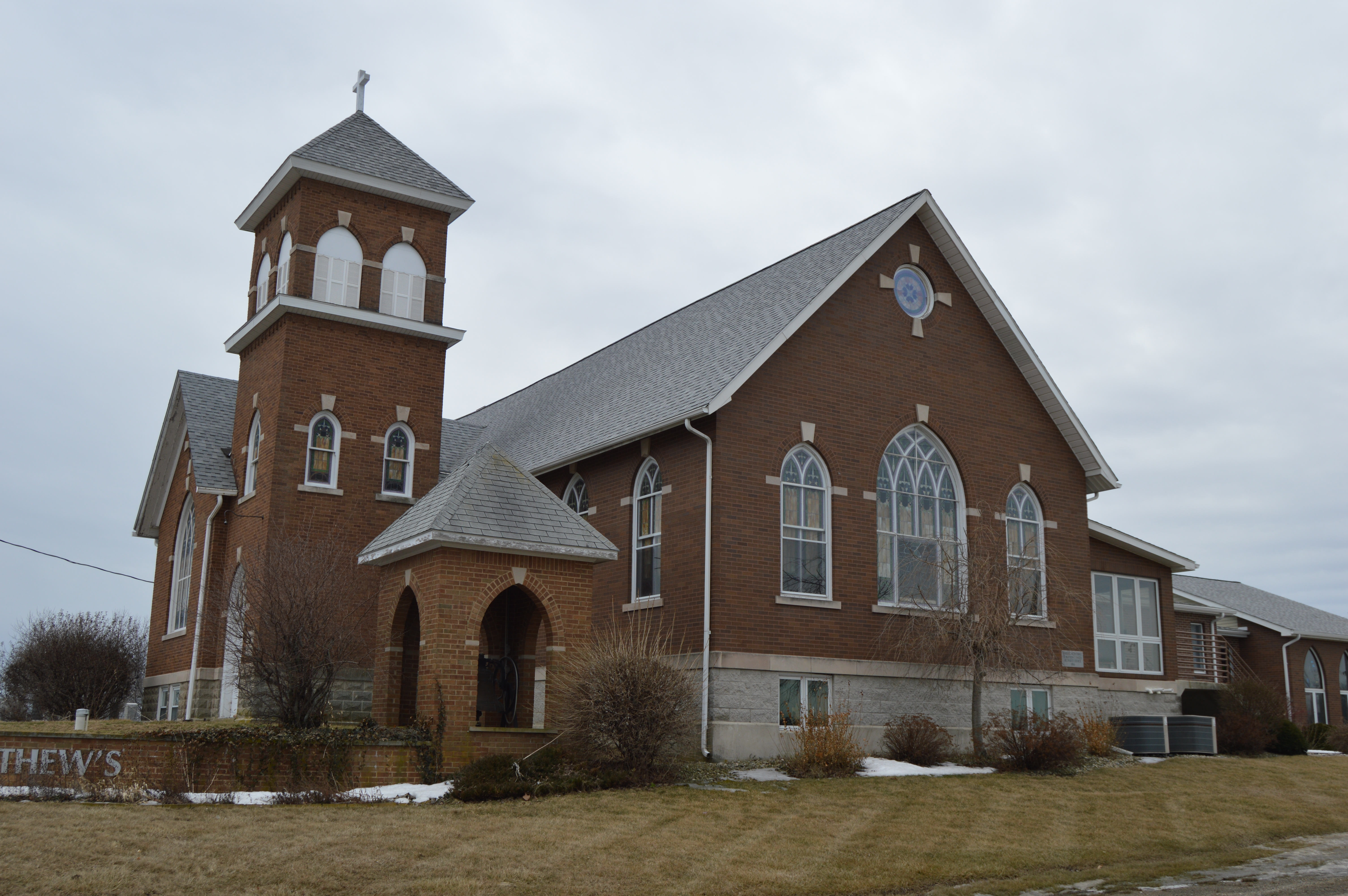 Northern side and front of St. Matthew's United Methodist Church, located on the southwestern corner of the junction of State Road 9 and W500N in Thorncreek Township, Whitley County, Indiana, United States.